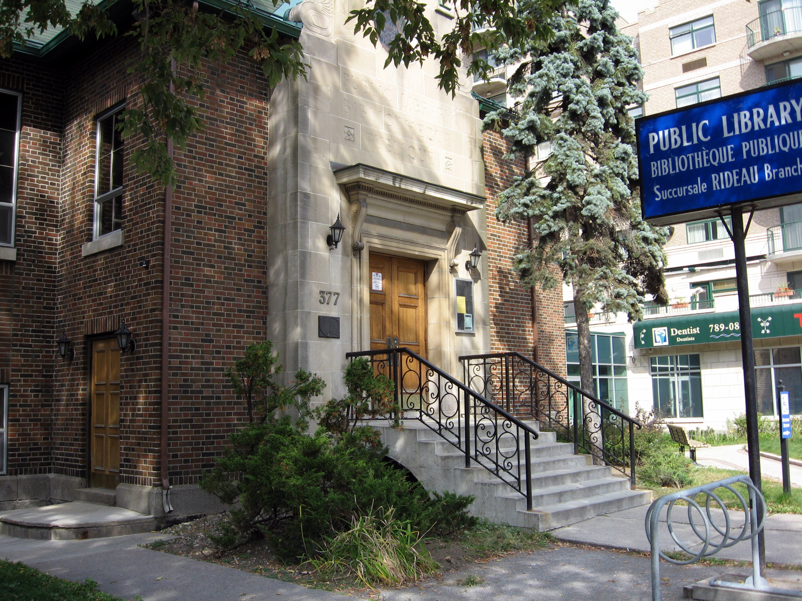 The Rideau Branch Library of the Ottawa Public Library in Ottawa, Canada.